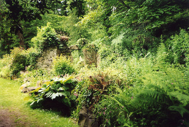 Rhiw: Plas yn Rhiw. Ruined watermill in the gardens of Plas yn Rhiw